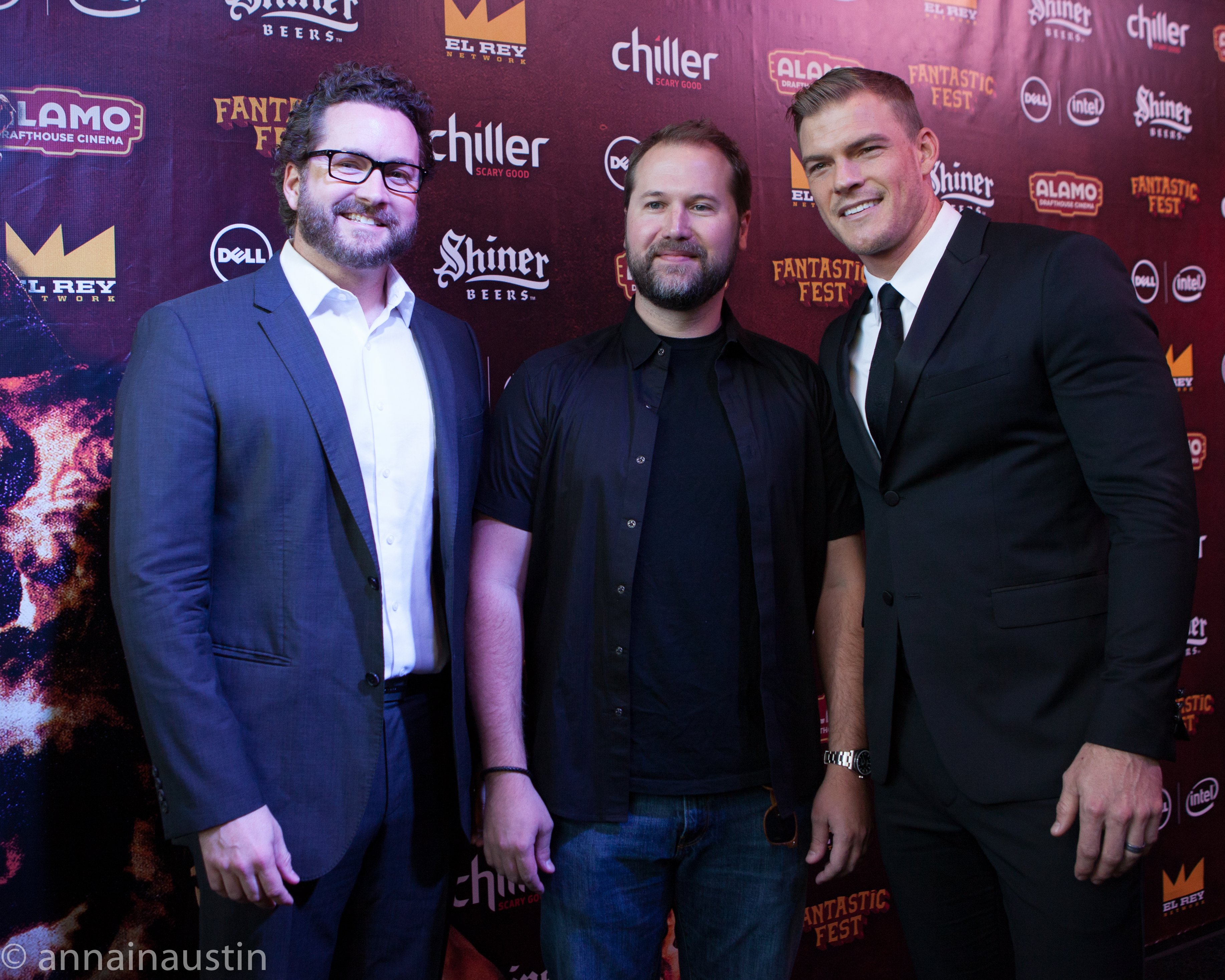 Burnie Burns, Matt Hullum, and Alan Ritchson on the red carpet at the Lazer Team premiere at Fantastic Fest 2015.